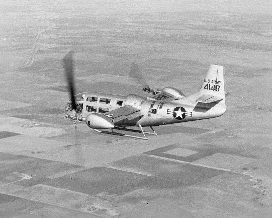 The Bell XV-3A tiltrotor during flight testing.